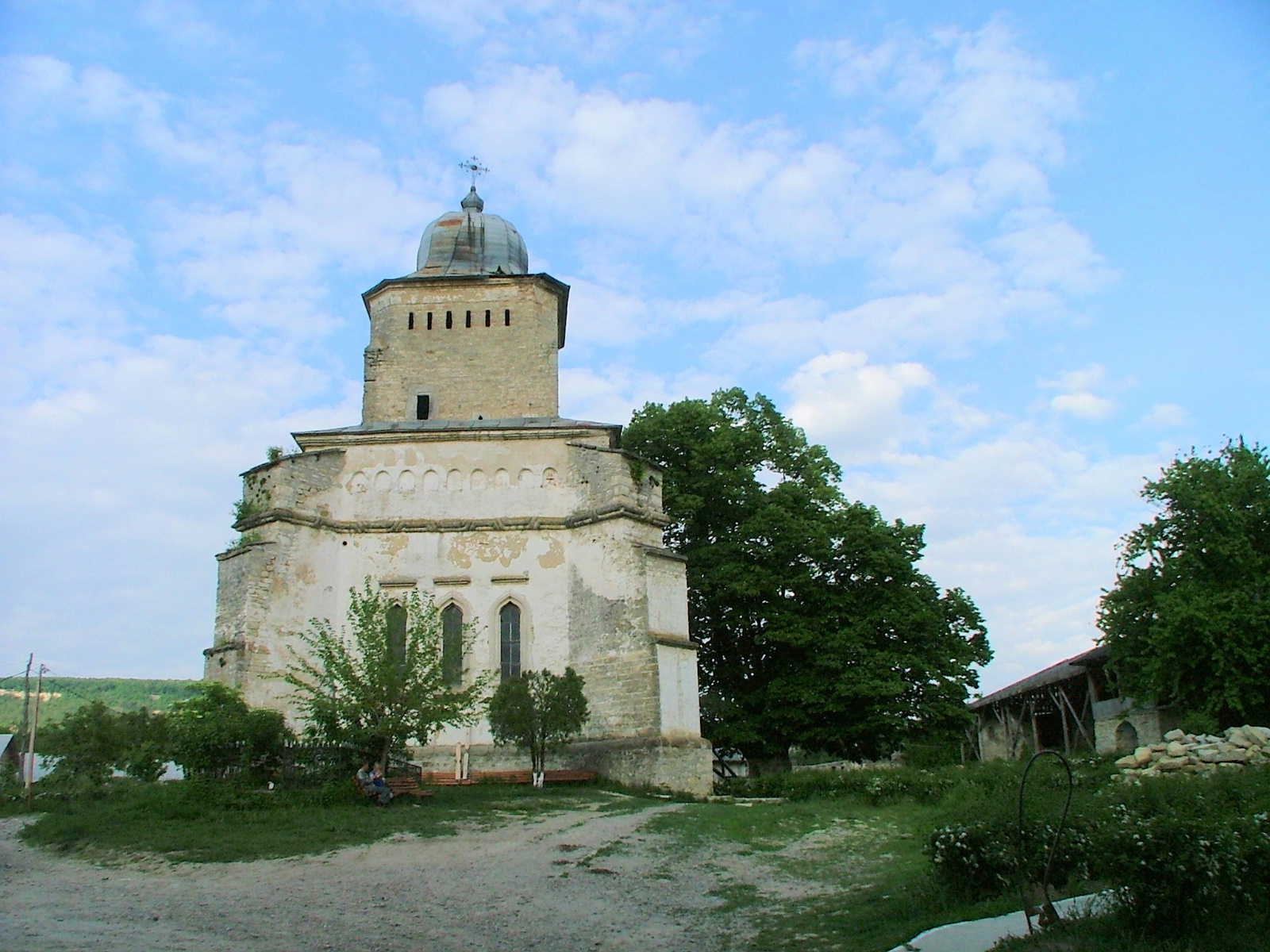 Saint George Church of Barnova Monastery 01